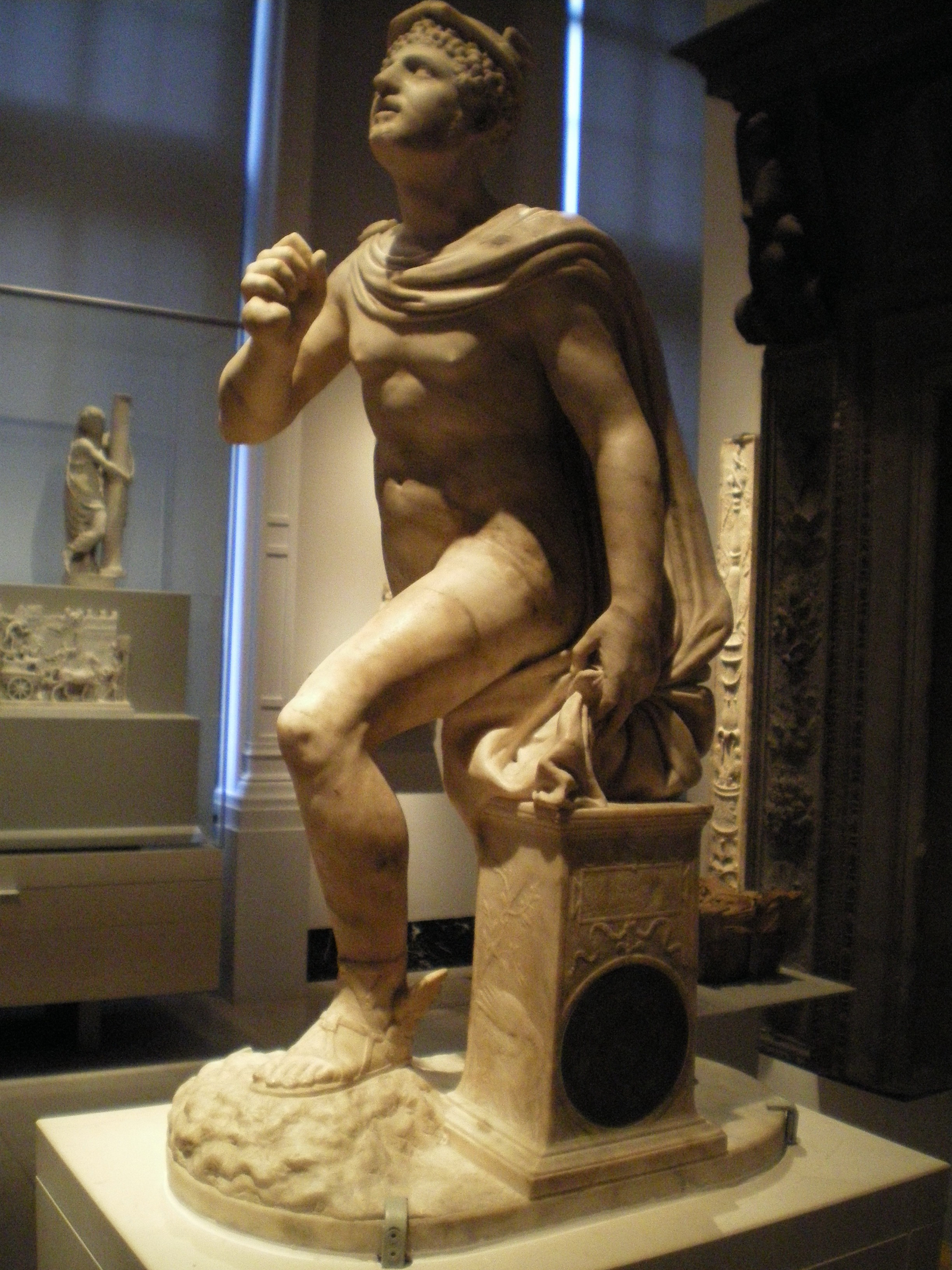 Mercury Dated 1527 Antonio Minelli (active after 1500-about 1529) Italy, Padua Marble with circular bronze disc The inscription states that this figure was commissioned by the Venetian scholar Marcantonio Michiel and begun on 14 February 1527. His horoscope for 15 June appears on the bronze disc. With Mercury, the god of eloquence and commerce, in the ascendant, it was probably intended as a favourable omen for Michiel, who was hoping to gain a seat in the Venetian Senate. Given by Dr W. L. Hildburgh FSA Collection ID: A.44-1951 This photo was taken as part of Britain Loves Wikipedia in February 2010 by art_traveller.